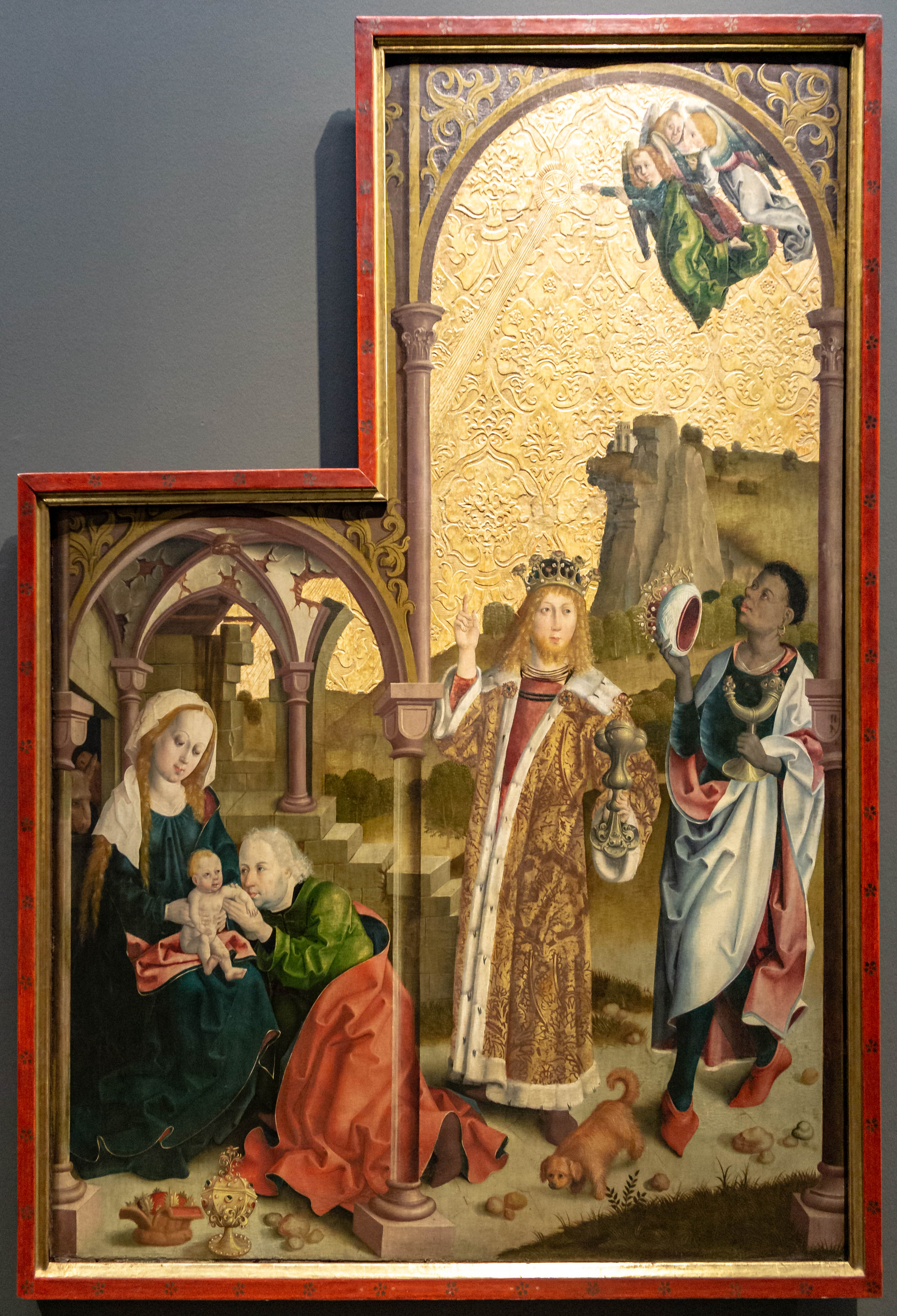 The Adoration of the Magi (Panel of the right interior wing)